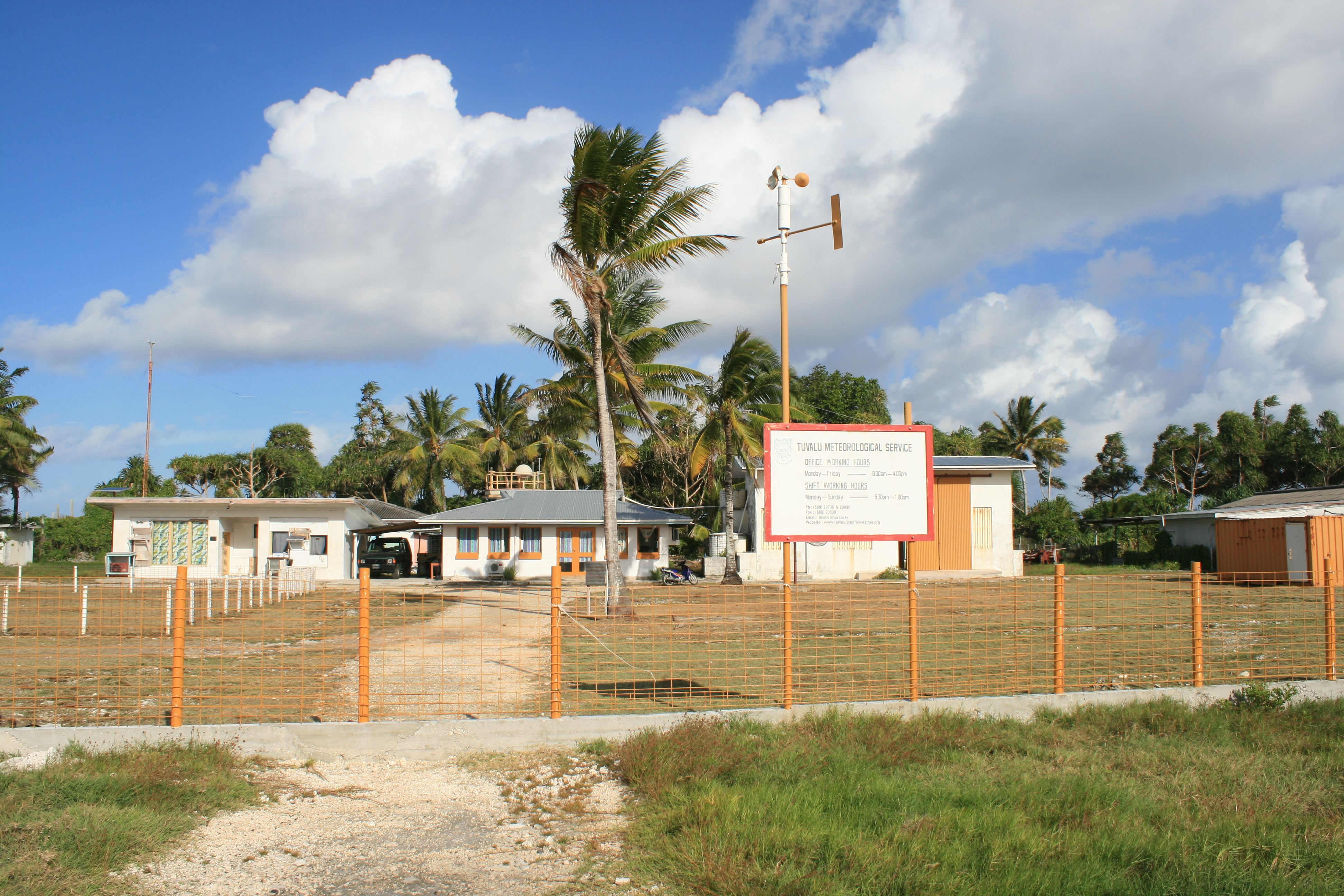 Tuvalu Meteorological Service in Funafuti looking east.